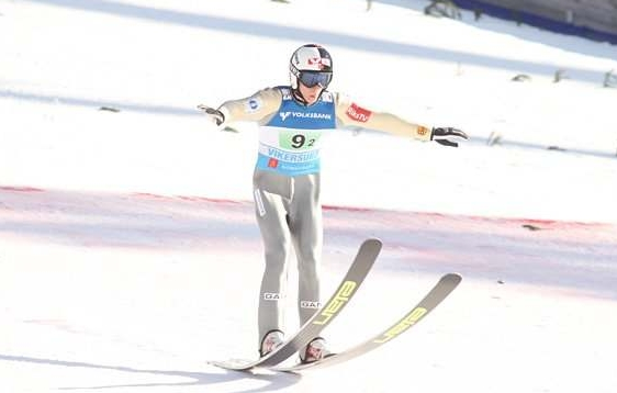 Anders Fannemel during team competition of FIS Ski-Flying World Championships 2012 in Vikersund.